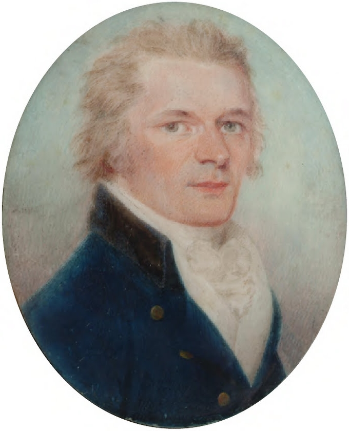 Miniature of Alexander Hamilton (1757–1804), attributed to Charles Shirreff, c.1790. See discussion at Granger Collection (archived 2017-08-01).